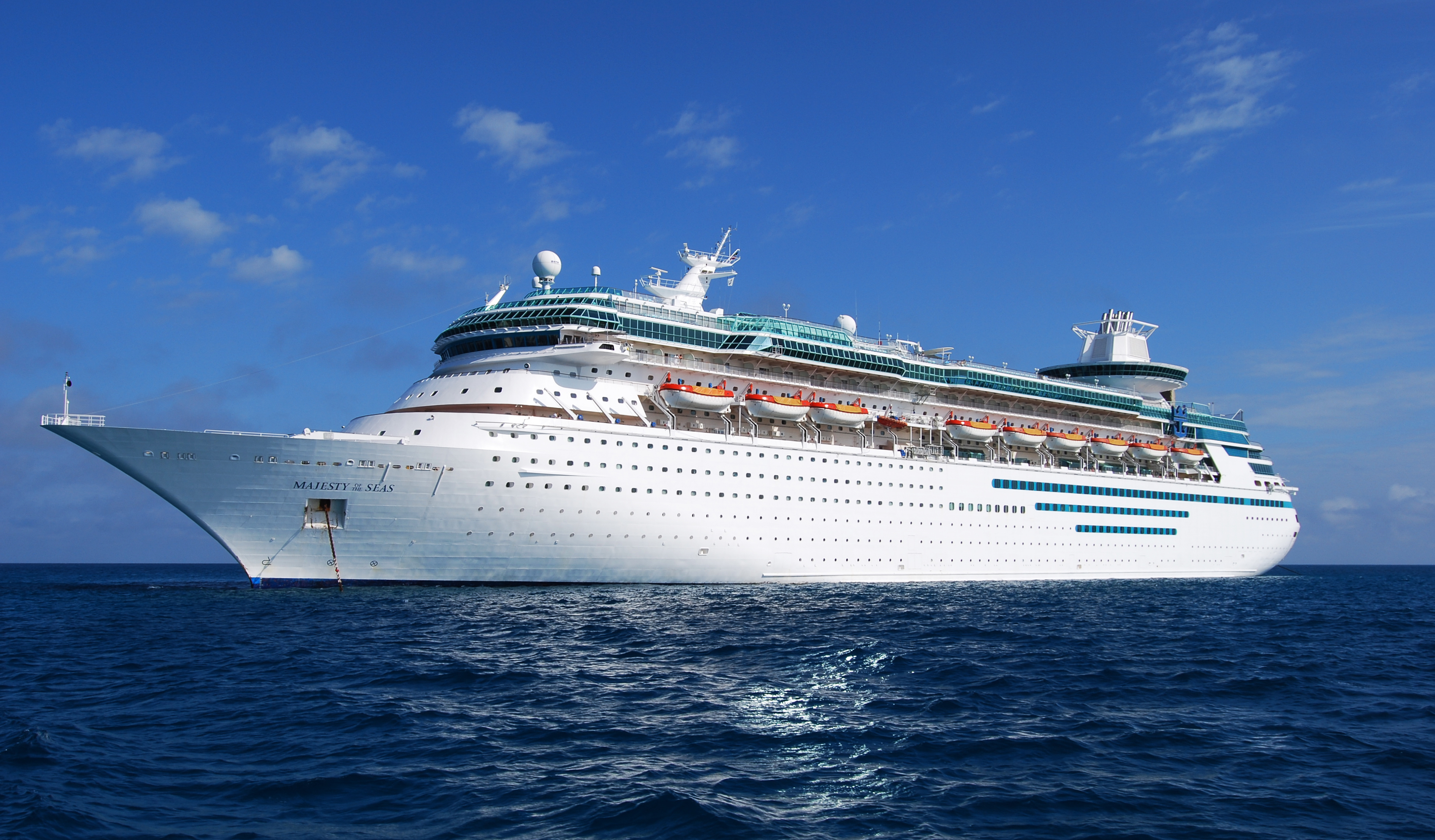 MS Majesty of the Seas, one of Royal Caribbean International's Sovereign class cruise ships, anchored off Coco Cay, Royal Caribbean's name for Little Stirrup Cay, an island the company leases in the Bahamas.